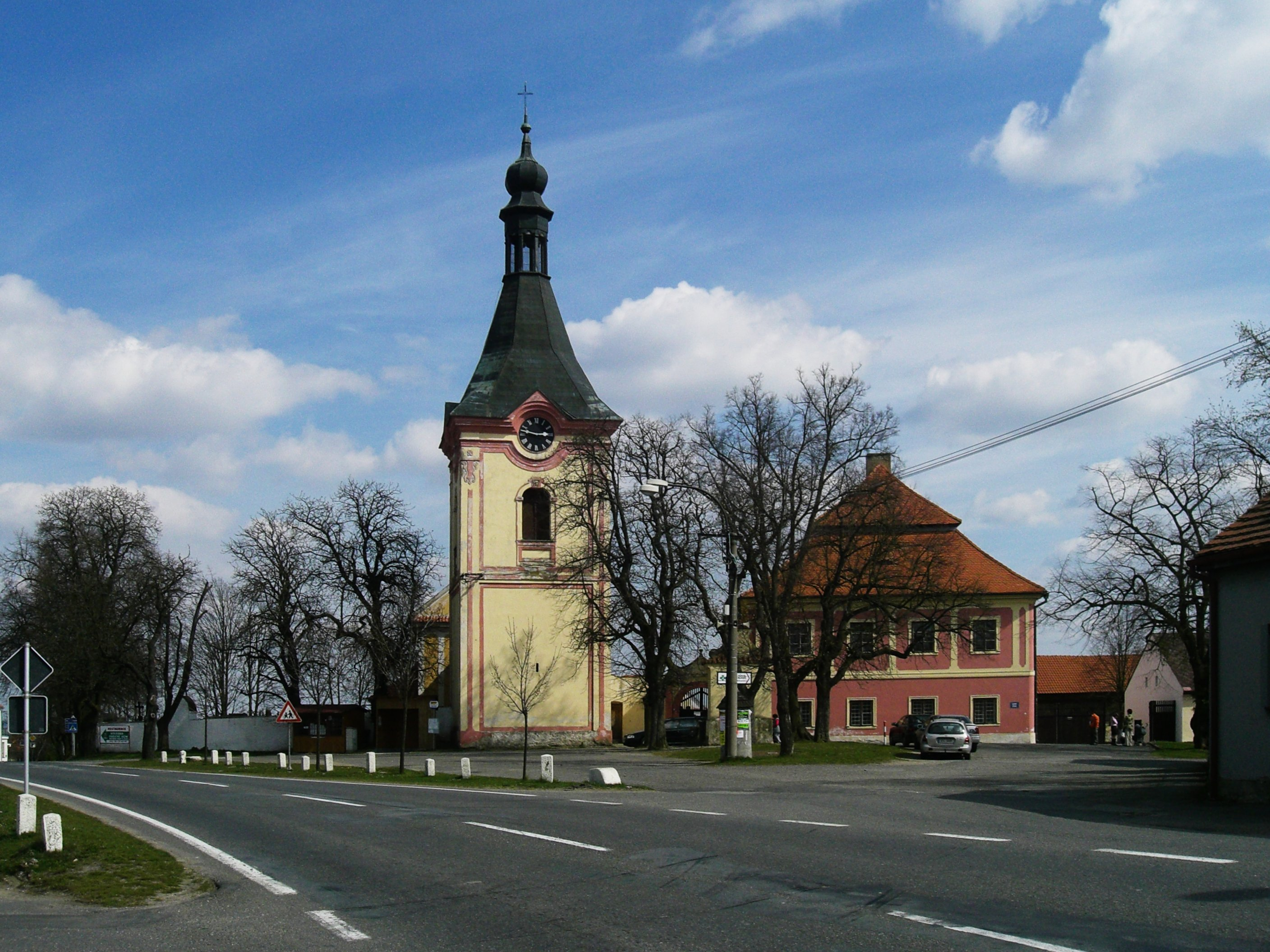 Záhoří village in the Písek District, Czech Republic. Church of Saint Michael